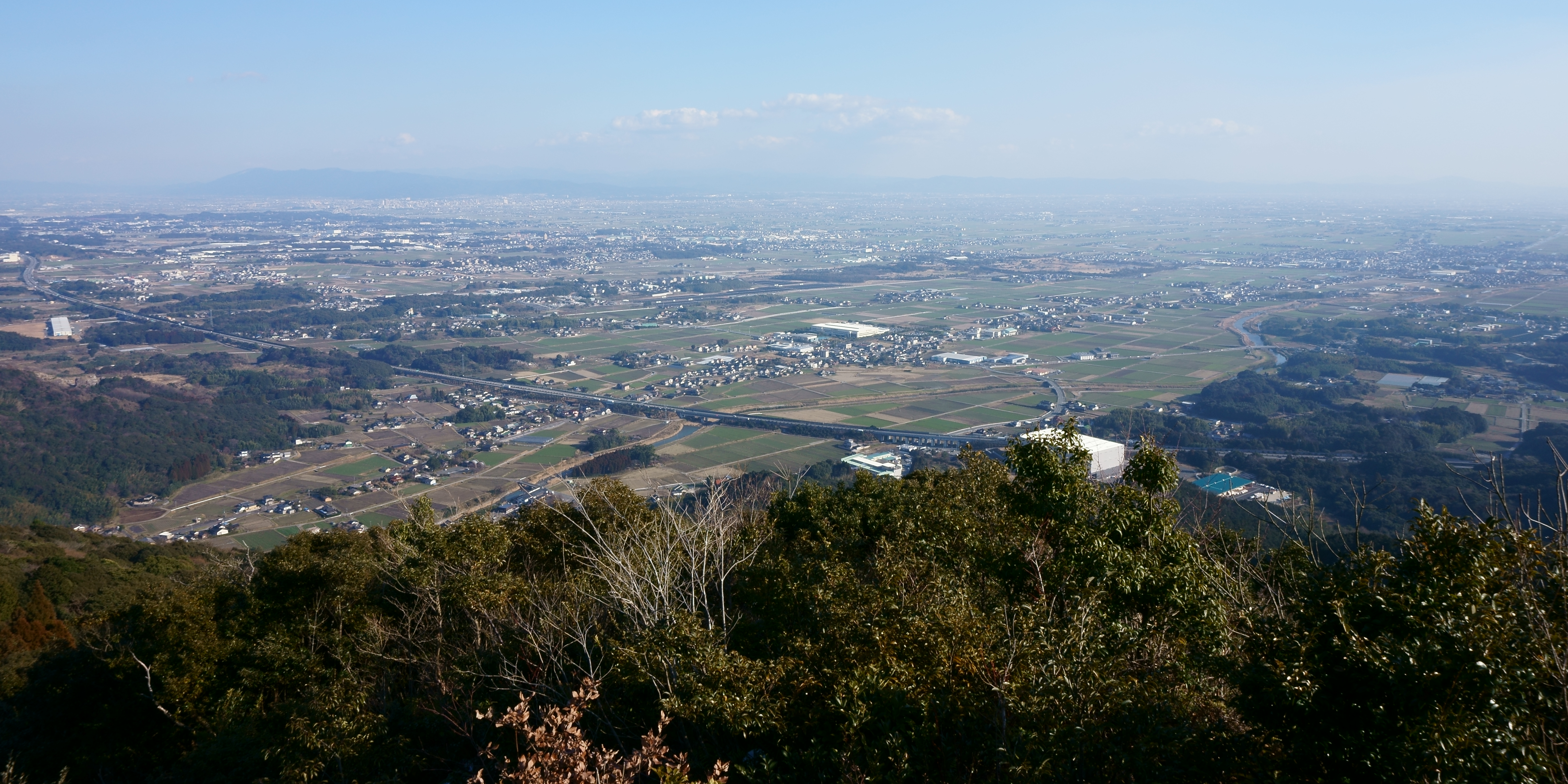 View of the foot of Sefuri Mountains and Tsukushi Plain, from the middle of Mount Kawarake, in Kanzaki city.